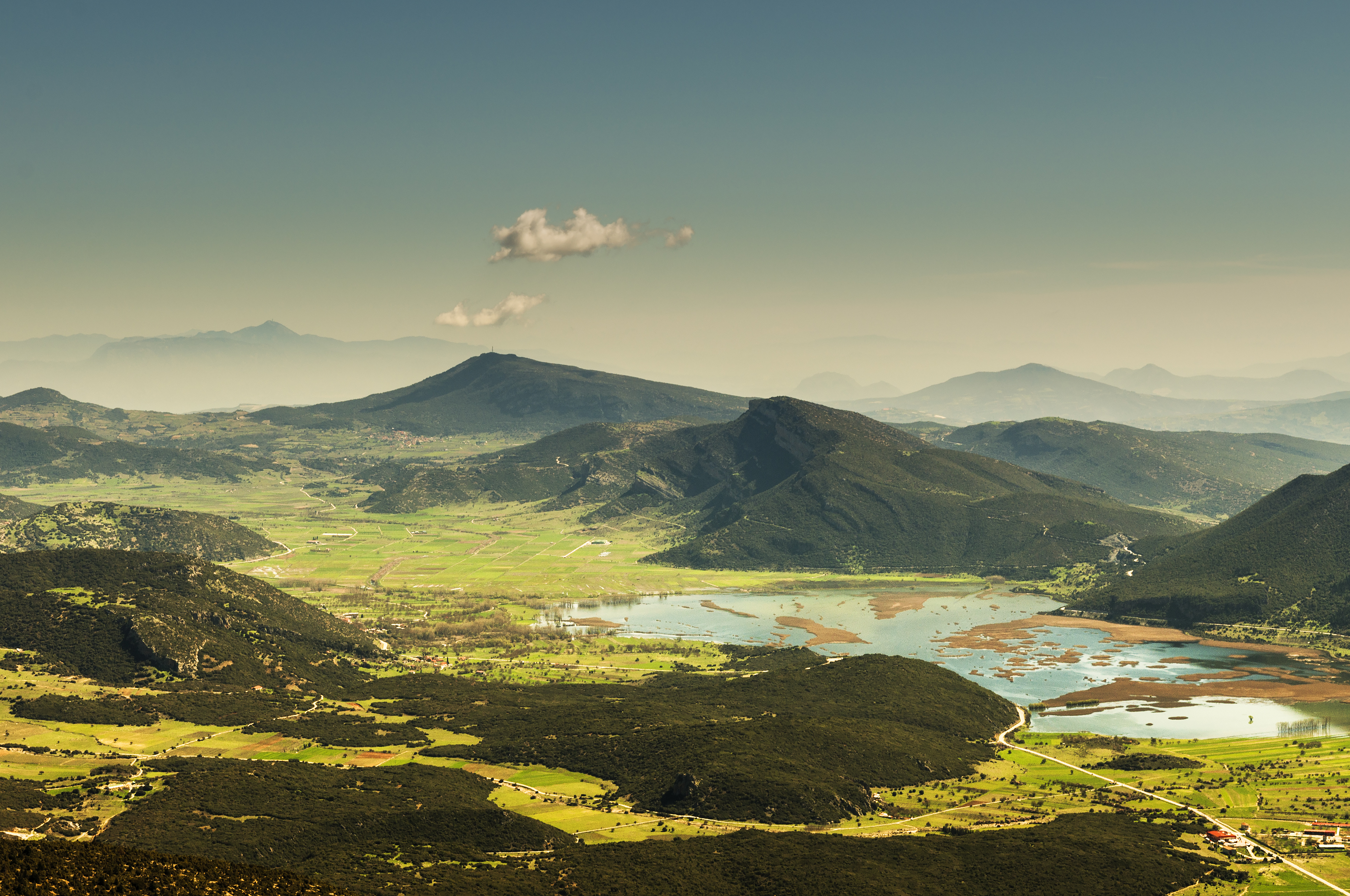 This is a photography of Natura 2000 protected area with ID GR2530002